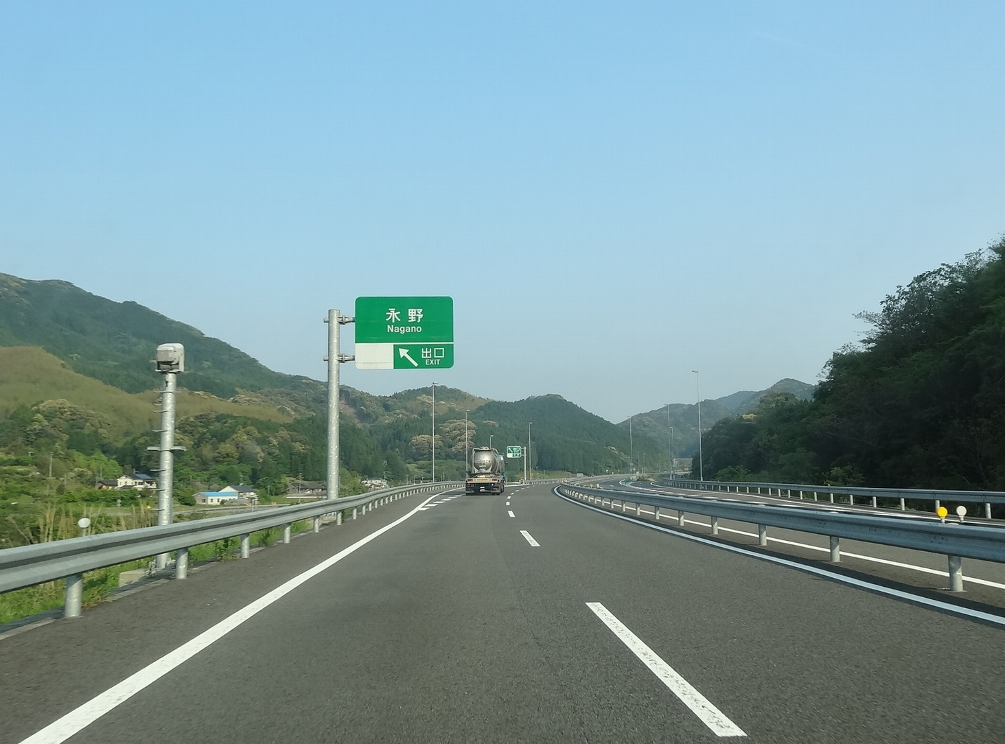 Hokusatsu (North Satsuma) Traverse Road (Nagano, Satsuma Town, Kagoshima Prefecture, Japan)